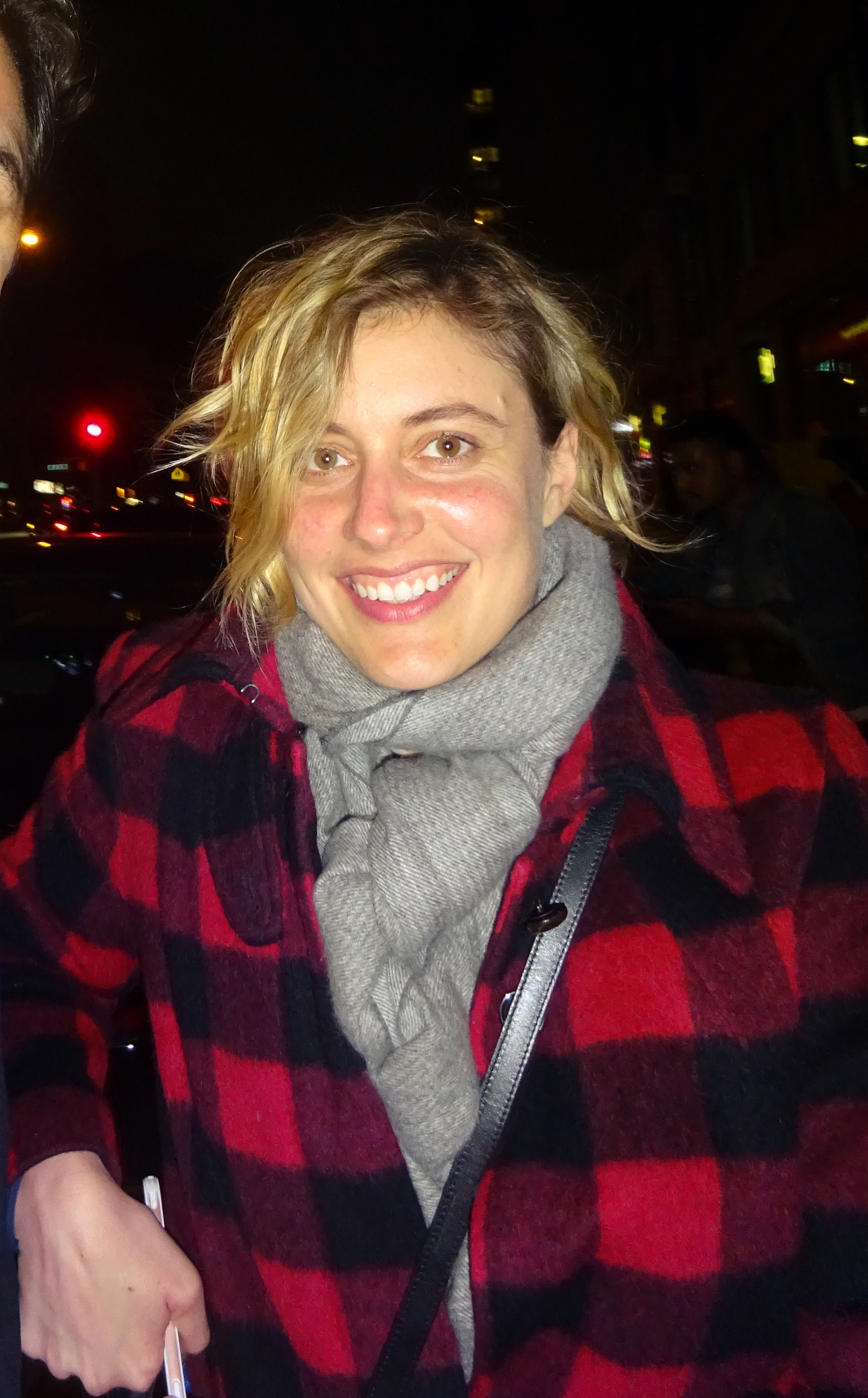 Star of Maggie's Plan. NYC Nov '16